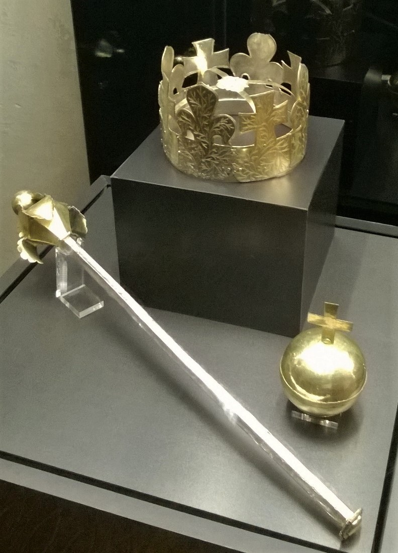 The burial crown jewels of King Rudolf I of Bohemia made in 1307 in Prague for his funeral. Found in his grave in St. Vitus Cathedral in Prague Castle.